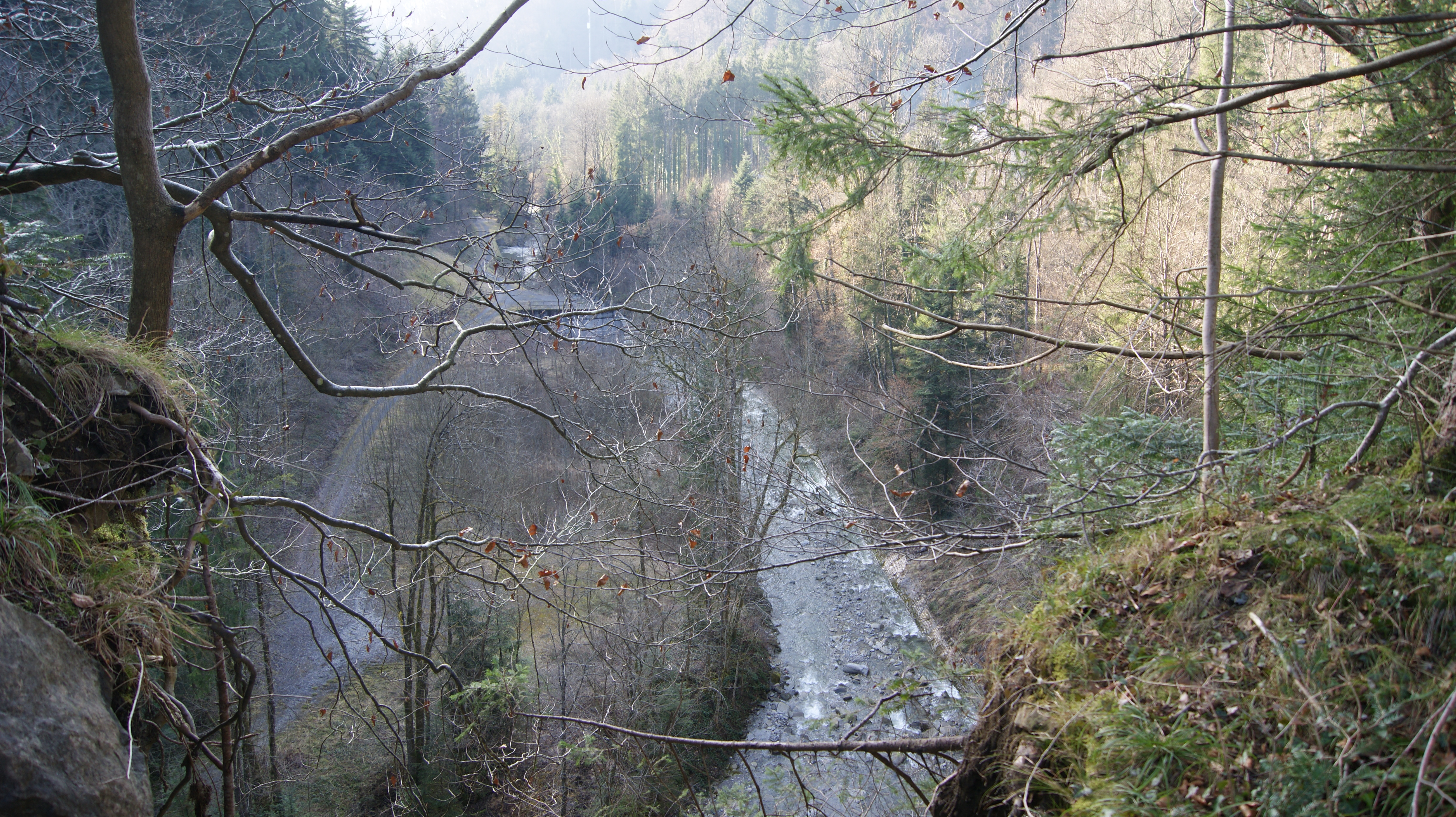 Schwarzachtobel - Street through the Schwarzachtobel (valley) - View from the "Kreuzfelsen" (meaning: Rock near the cross) to the valley: "Schwarzachtobel" and the Schwarzach (river). About 507 masl.